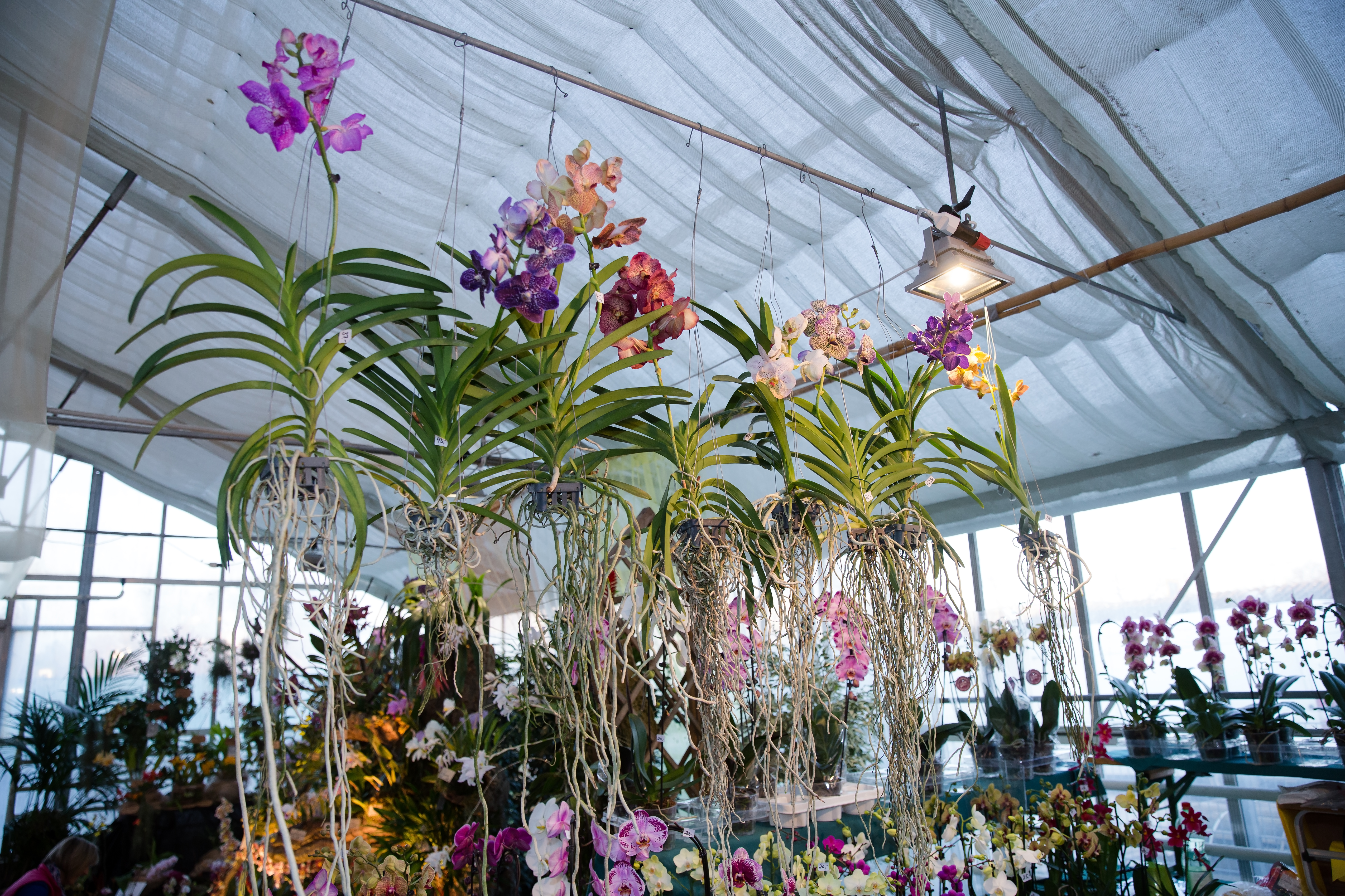 International Exhibition of Orchids and Tillandsia at Blumengärten Hirschstetten in Vienna, Austria.